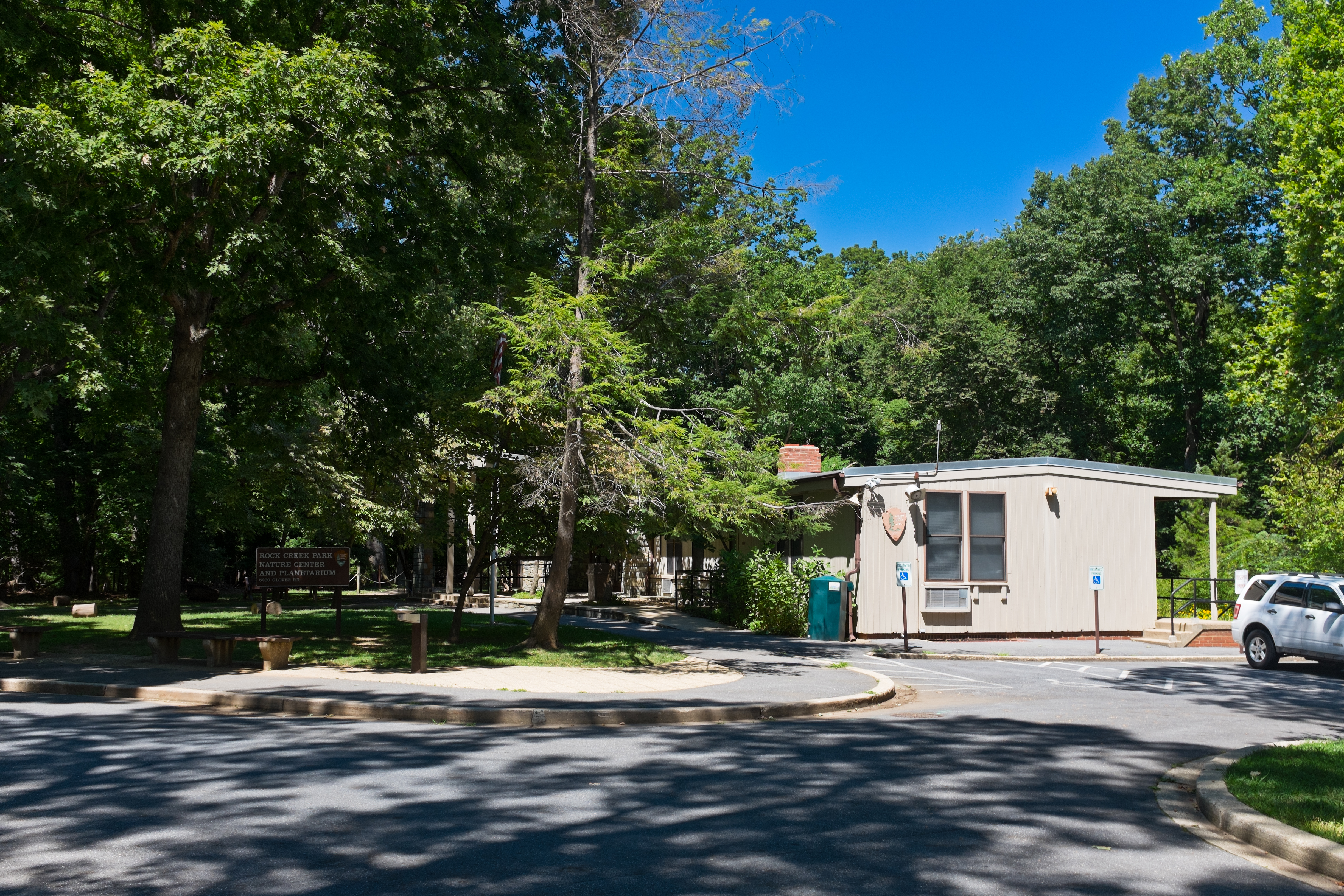 Nature Center, Rock Creek Park, Washington DC, USA